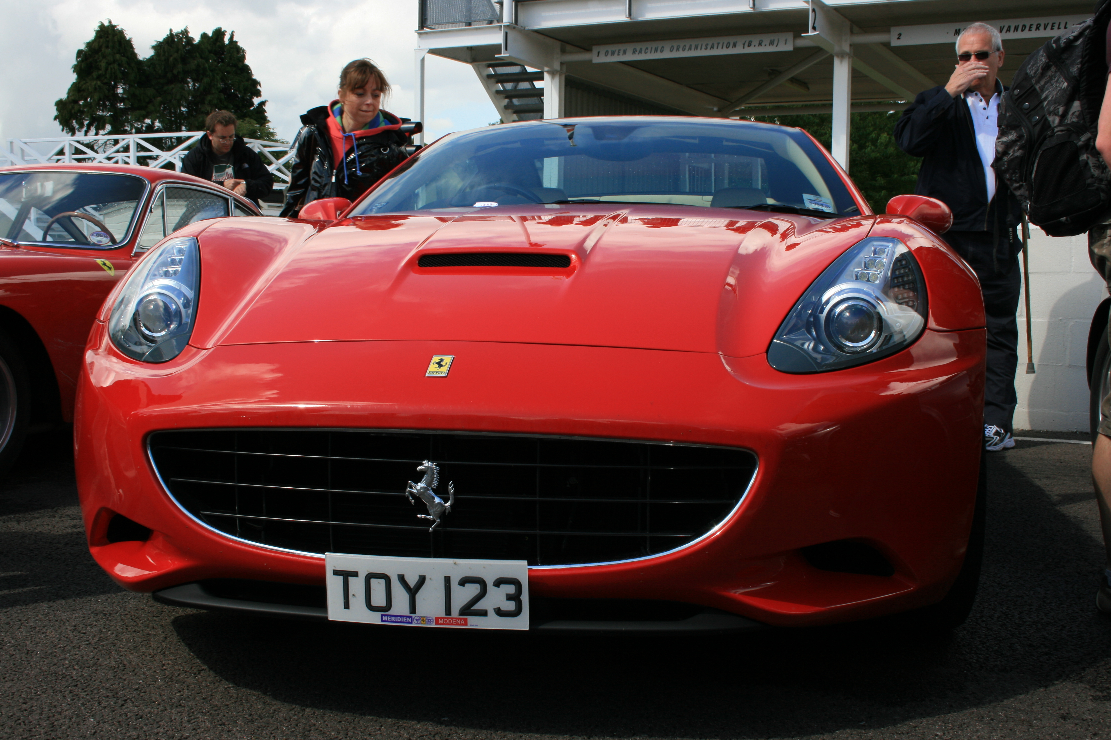 This licence plate TOY123 was on an Alfa Romeo 8C Competizione at last years Supercar Sunday - how weird!